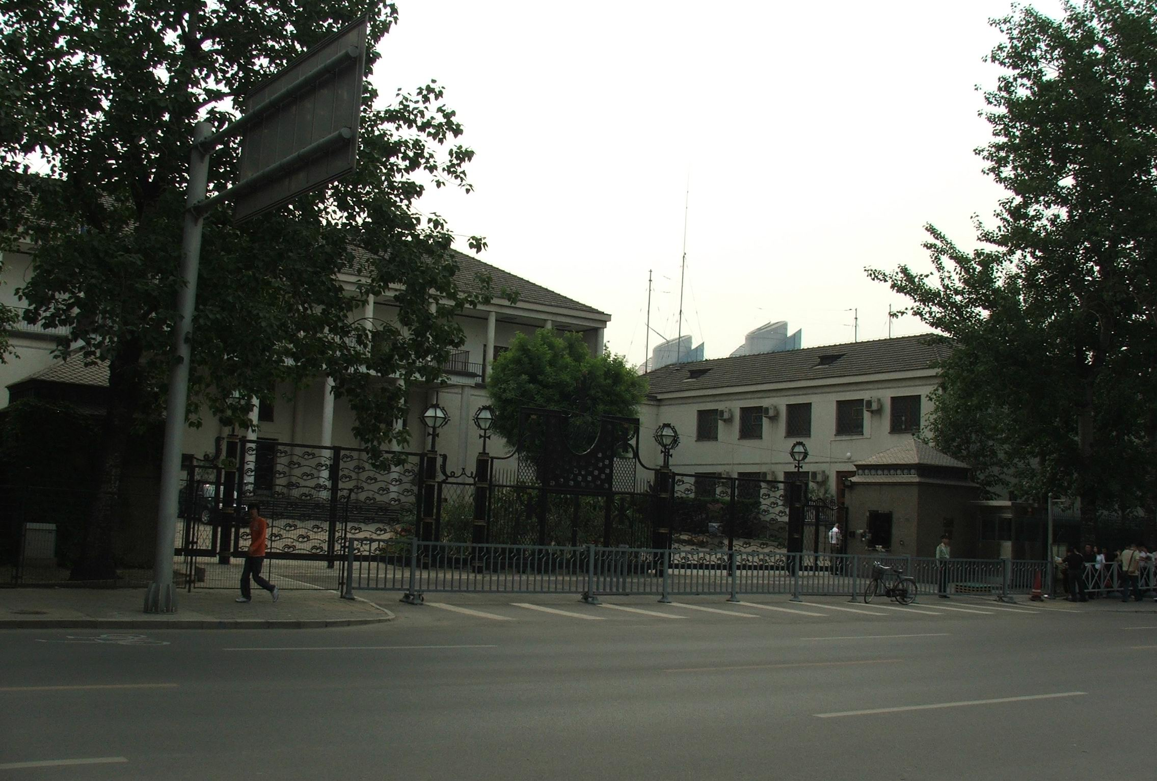 Embassy of Poland in Beijing - China.